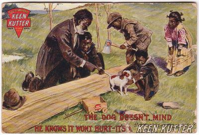 Dog Wont mind Ad Simmons Hardware Company Adverising and Logos this company was very active in advertising its hardware under the trademark keen kutter . This postcard was on sale in the USA in 1918.